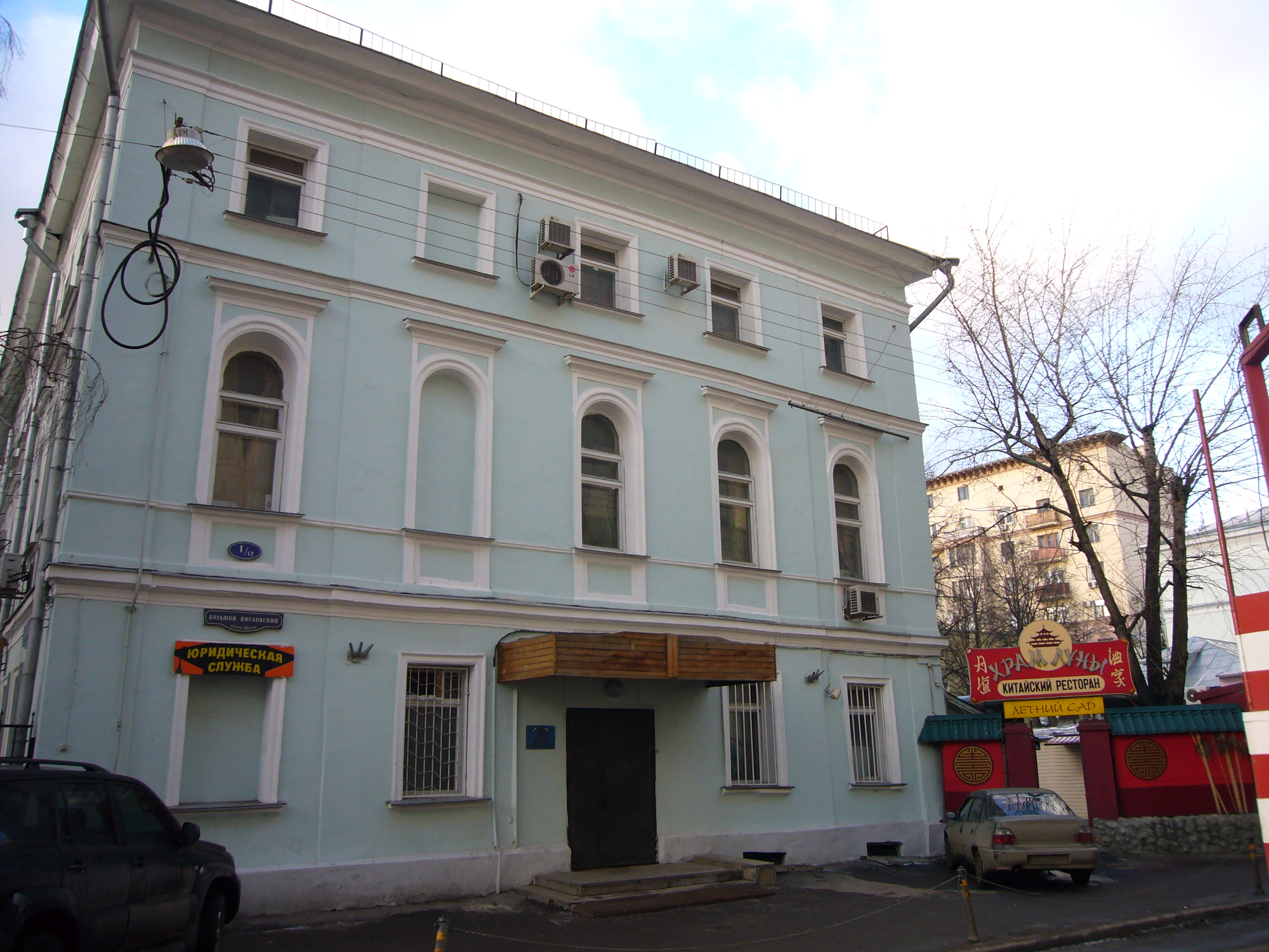 View of Linguistics Institute building at 1/12 B. Kislovsky Sidestreet in Moscow, Russia